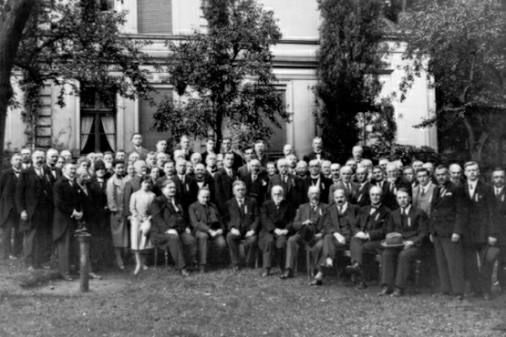 Citation: Mennonite World Conference Records, 1923-2012. X-009. Mennonite Church USA Archives - Goshen. Goshen, Indiana. Box 20, Folder 2.